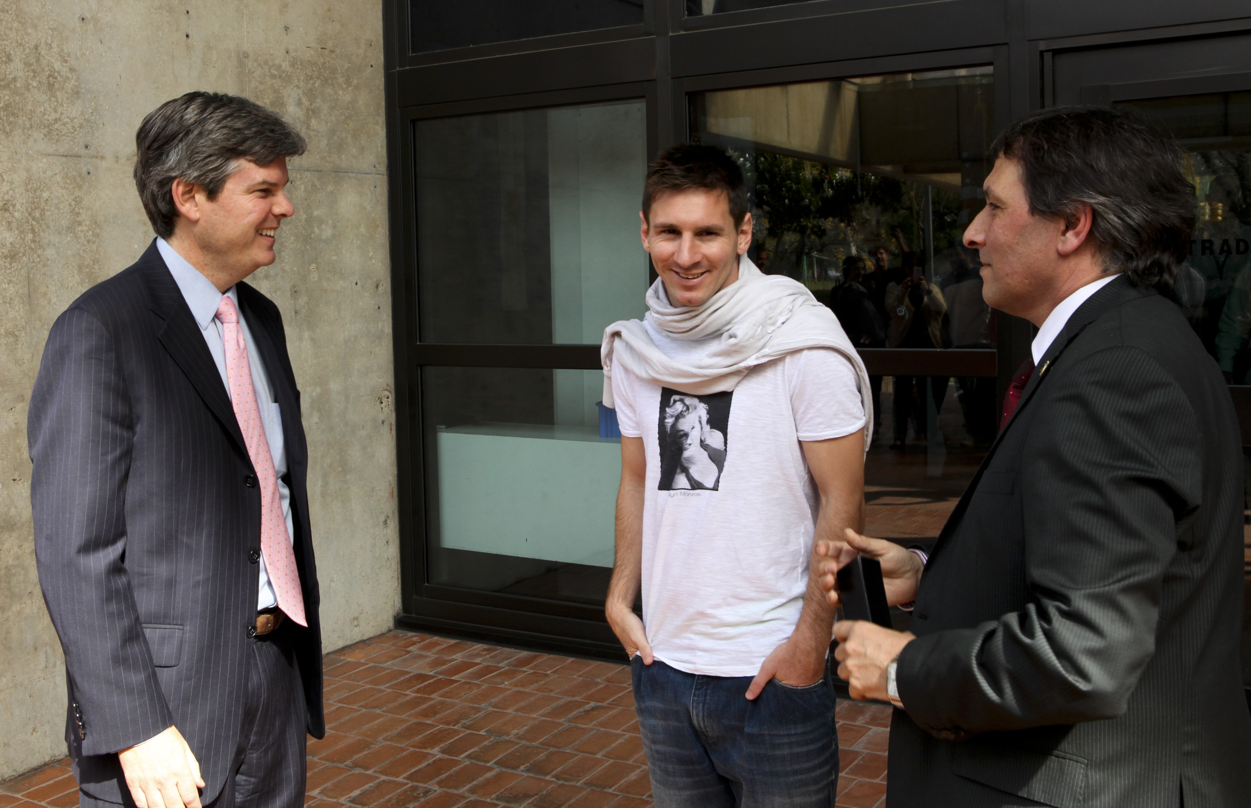 Messi at the U.S. Embassy in Argentina in 2013.